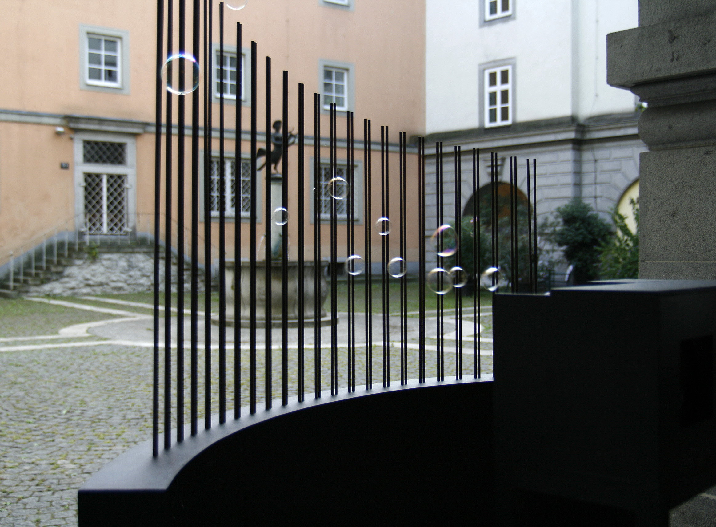 Ephemeral Melody, a musical instrument created at the University of Tokyo, presented in the courtyard of the University of Arts and Industrial Design Linz during the Ars Electronica Festival 2008.